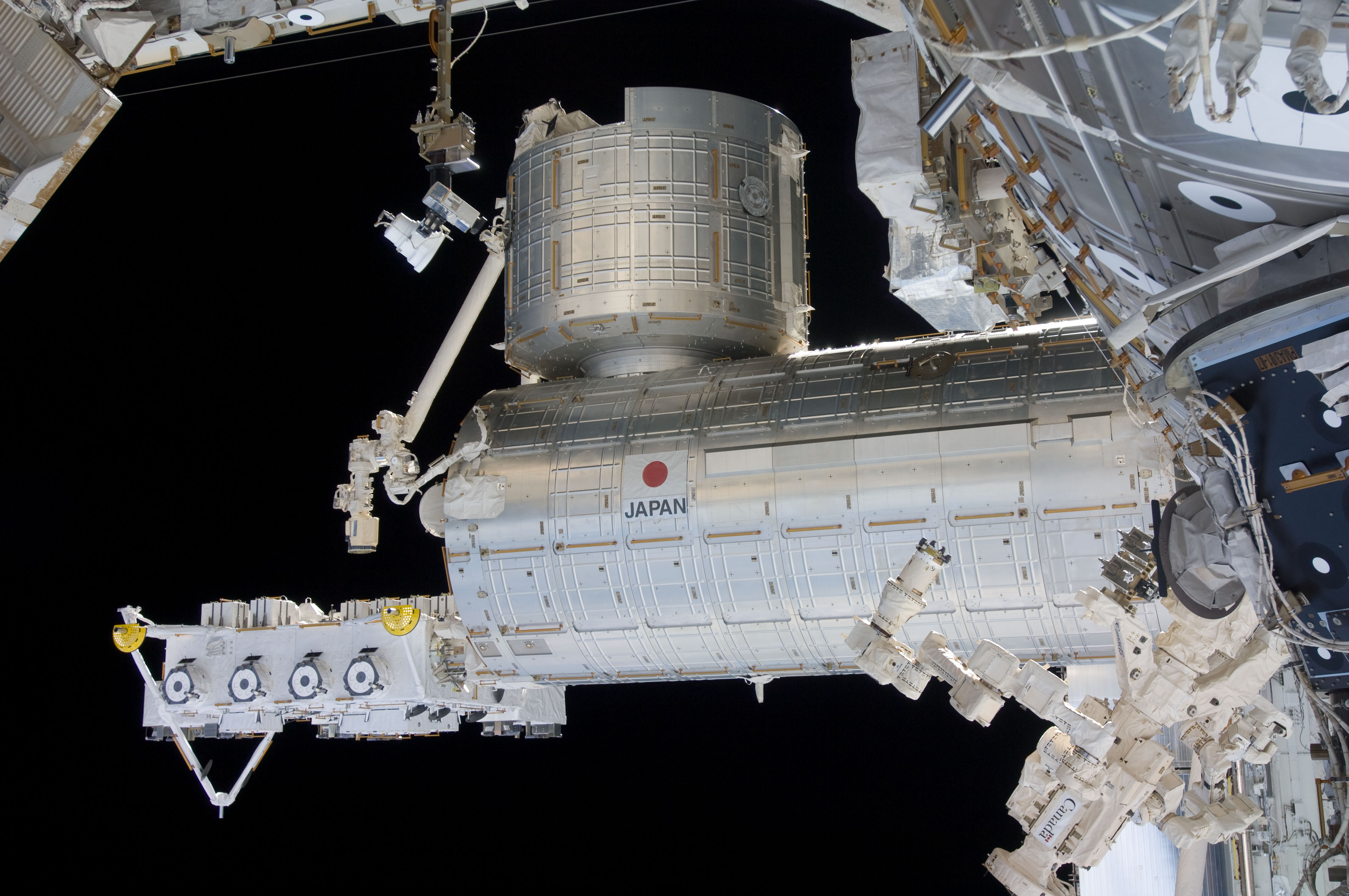 The Japanese Experiment Module Kibo laboratory and Exposed Facility are featured in this image photographed by a crew member on the International Space Station while Space Shuttle Endeavour (STS-127) remains docked with the station. Good Design Award 2010.